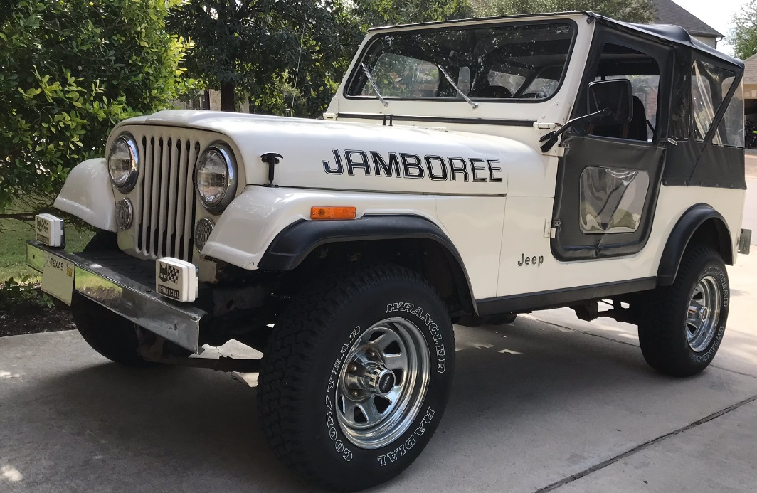 This is a picture of a 1982 Olympic White Jeep CJ-7 Jamboree Commemorative Edition.